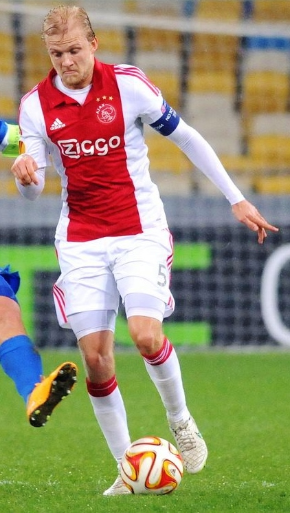 Nicolai Boilesen